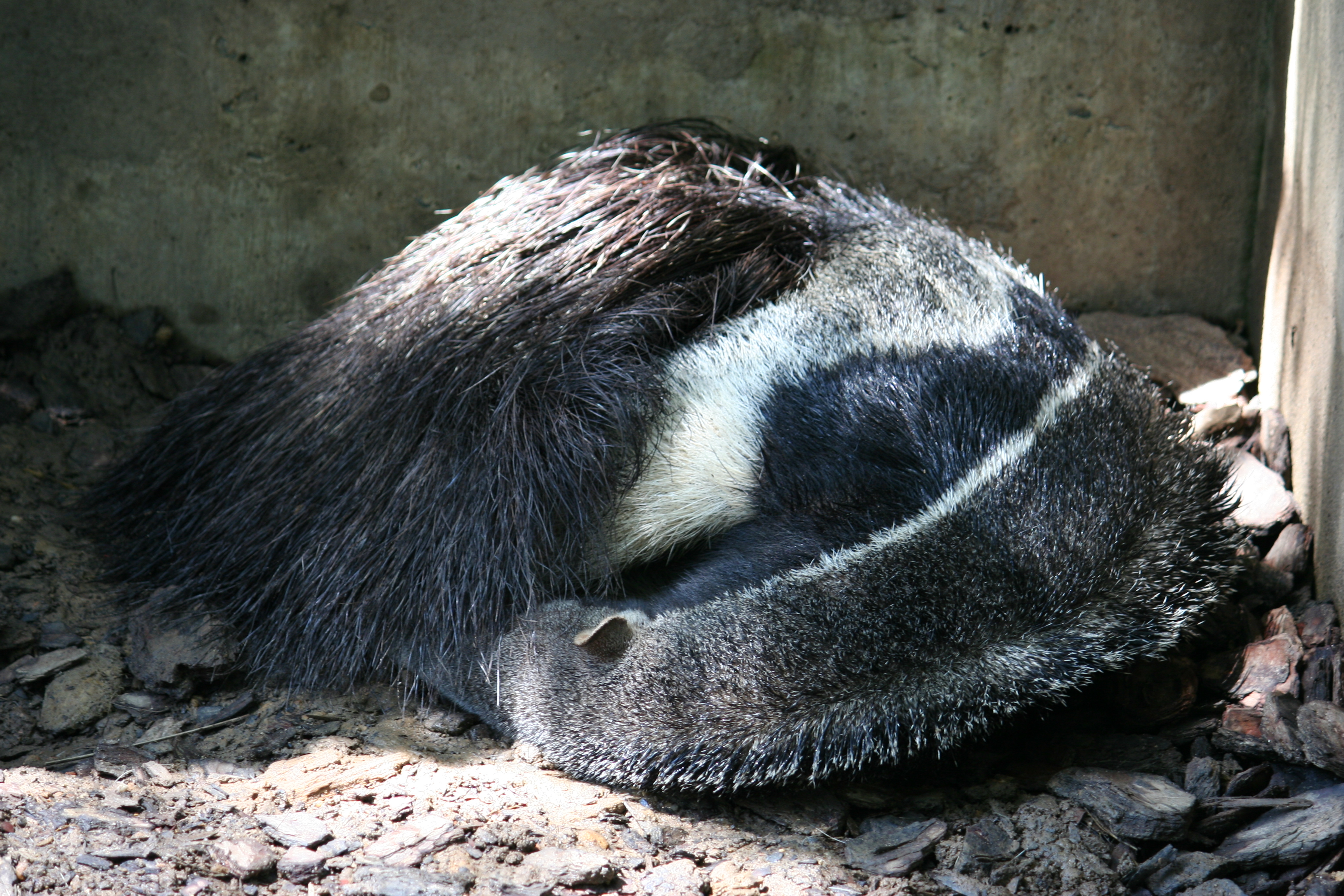 Anteater sleeping at the National Zoo.